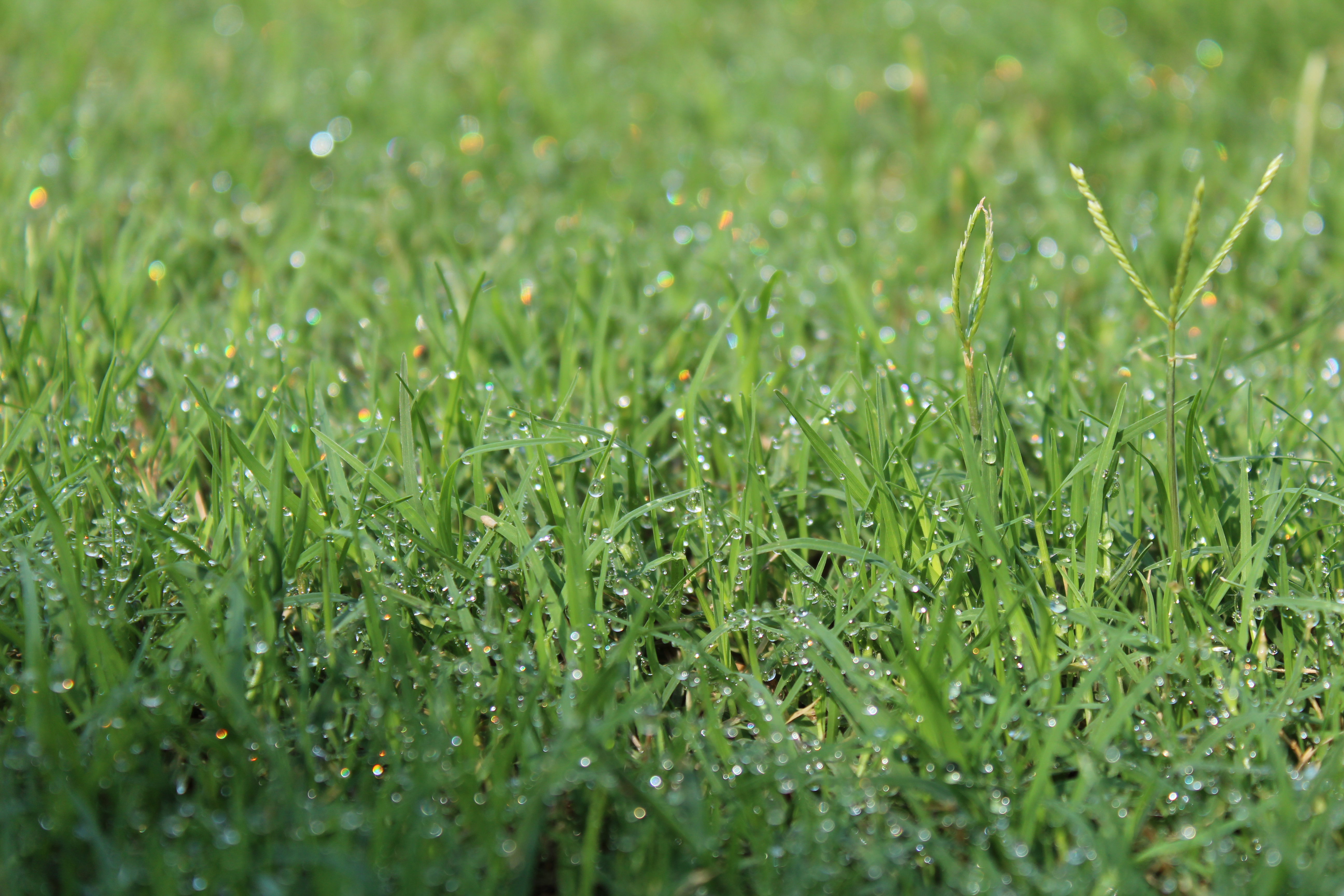 Celebration of Autumn....